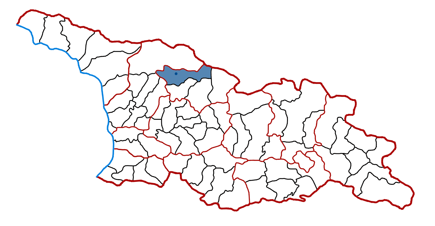 Location of Lentekhi district in Georgia